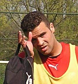 Ali Boussaboun, Moroccan footballer